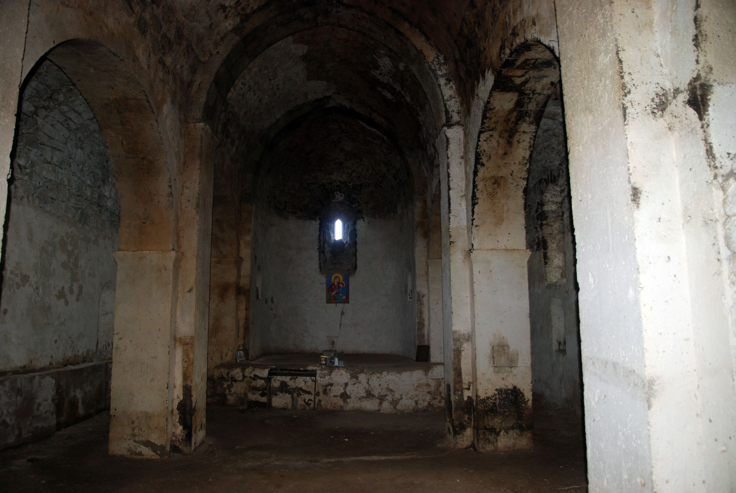 Tandzaver, church